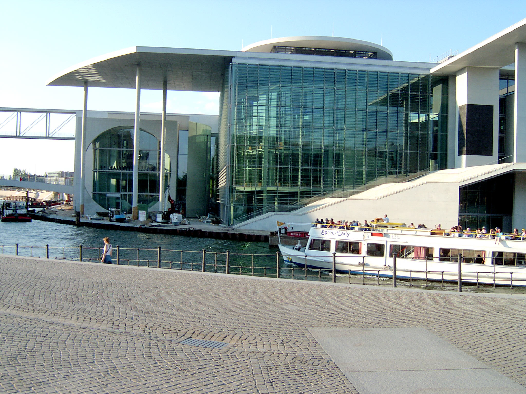 Marie-Elisabeth-Lüders-Haus, seat of the german national parliament library